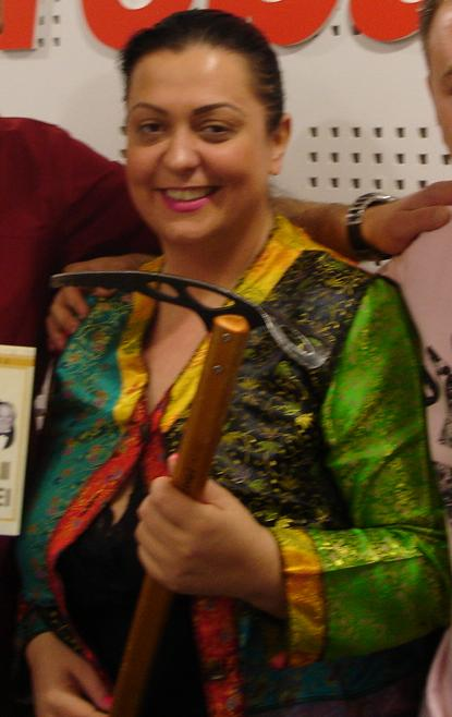 Romanian singer Monica Anghel in 2008.